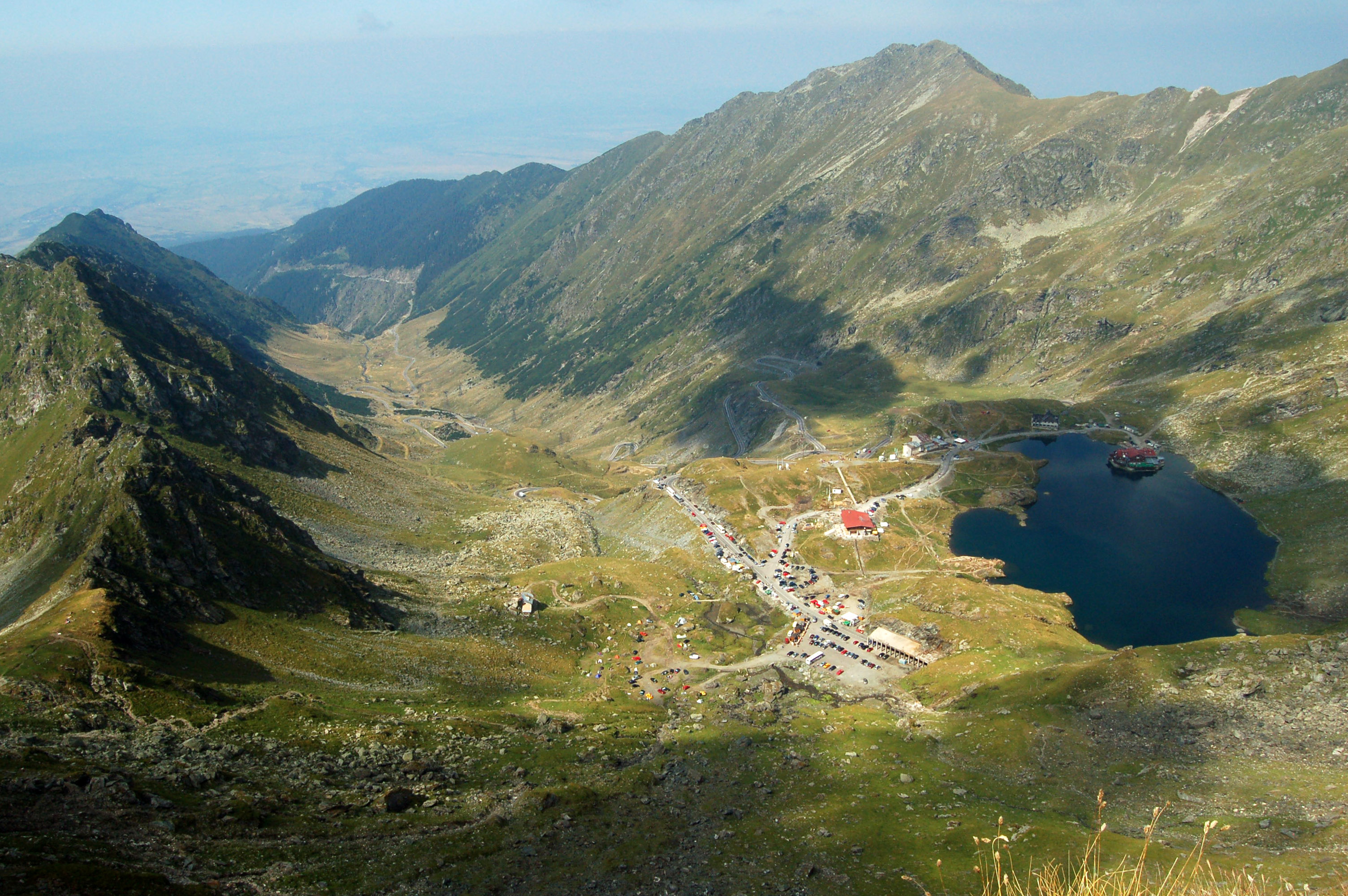 Northern side of Transfagarasan road in Făgăraş Mountains, Romania